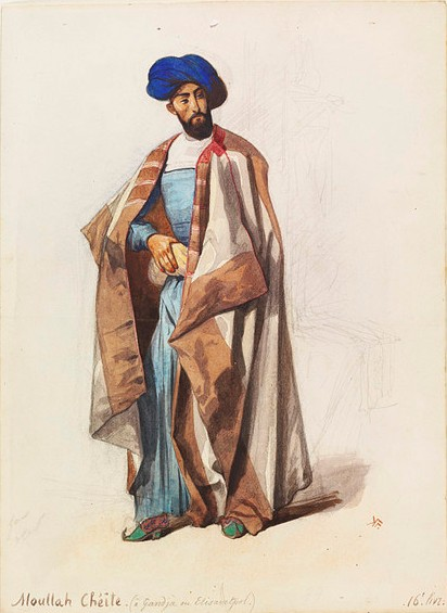 Shiite Mullah at Gandja or Elizavetapol.